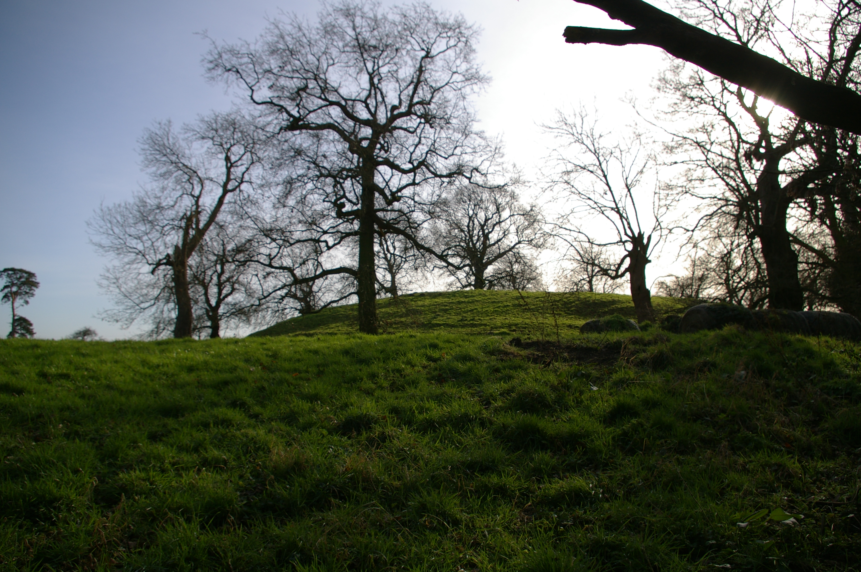 Motte of Wormegay castle There's an 11th-Century motte and bailey in Wormegay. In summer, it's hidden by the foliage on the trees. In the winter, though, it can be seen clearly.